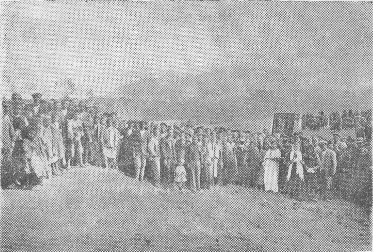 The procession from Sb. Tadeos Church in the village of Namagerd to the Armenian Hospital on the day of its opening, Peria (Faridan) county, Iran, November 8, 1942. The county used to have a large Armenian population. Printed in Perio Hayots Hivandanots@, Modern printing house, Tehran, 1953.